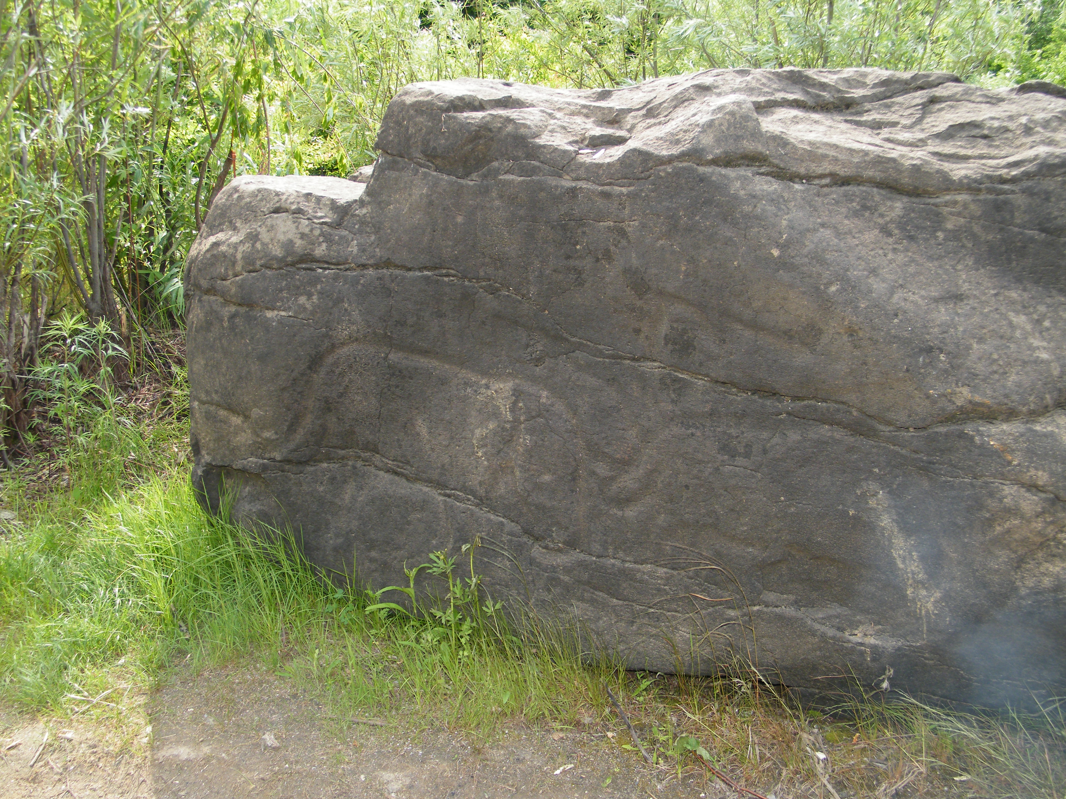 Petroglif of Sikachi-Alyan